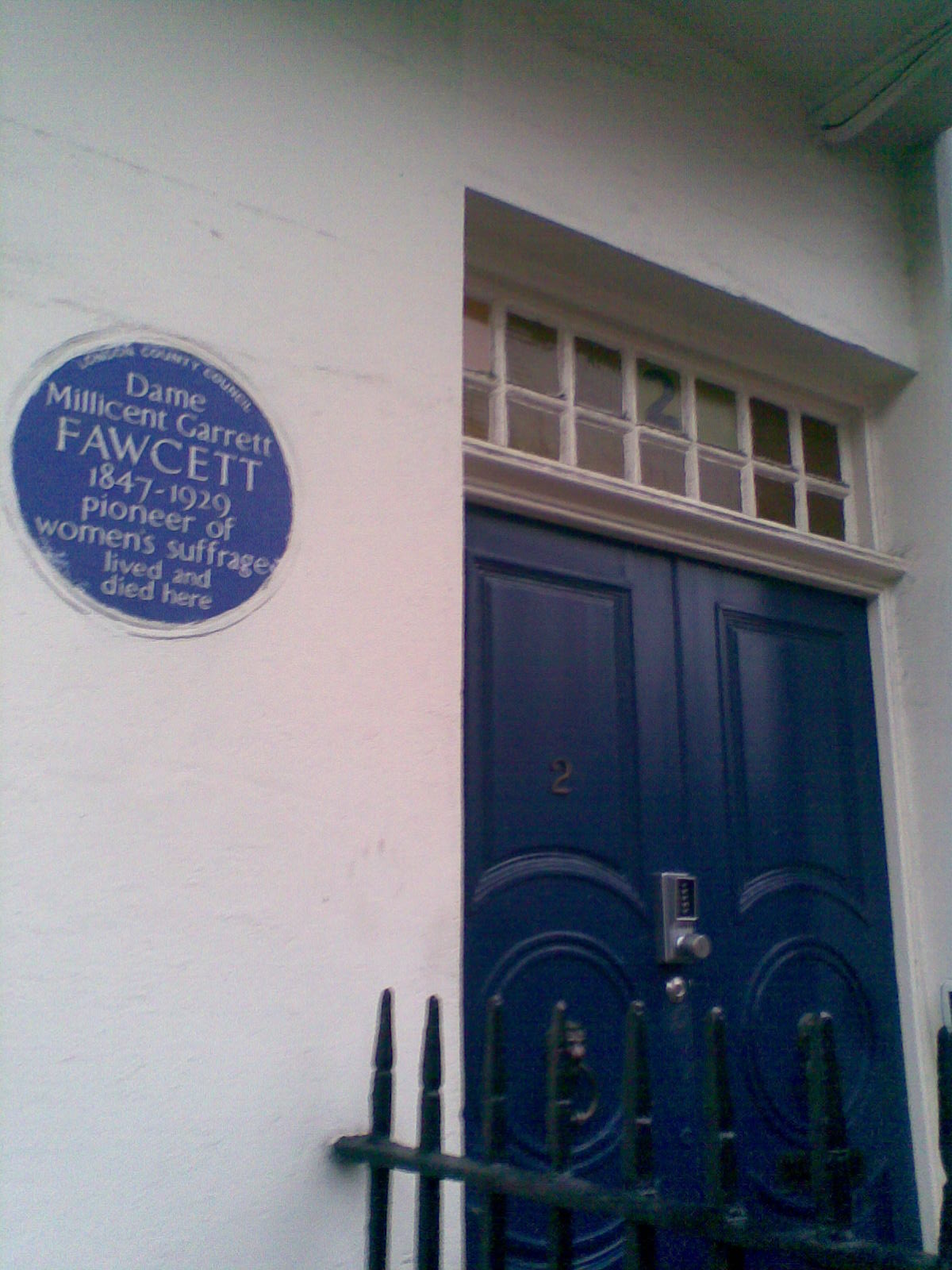 Doorway of Millicent Garrett Fawcett's home in Gower Street, London, with blue commemorative plaque